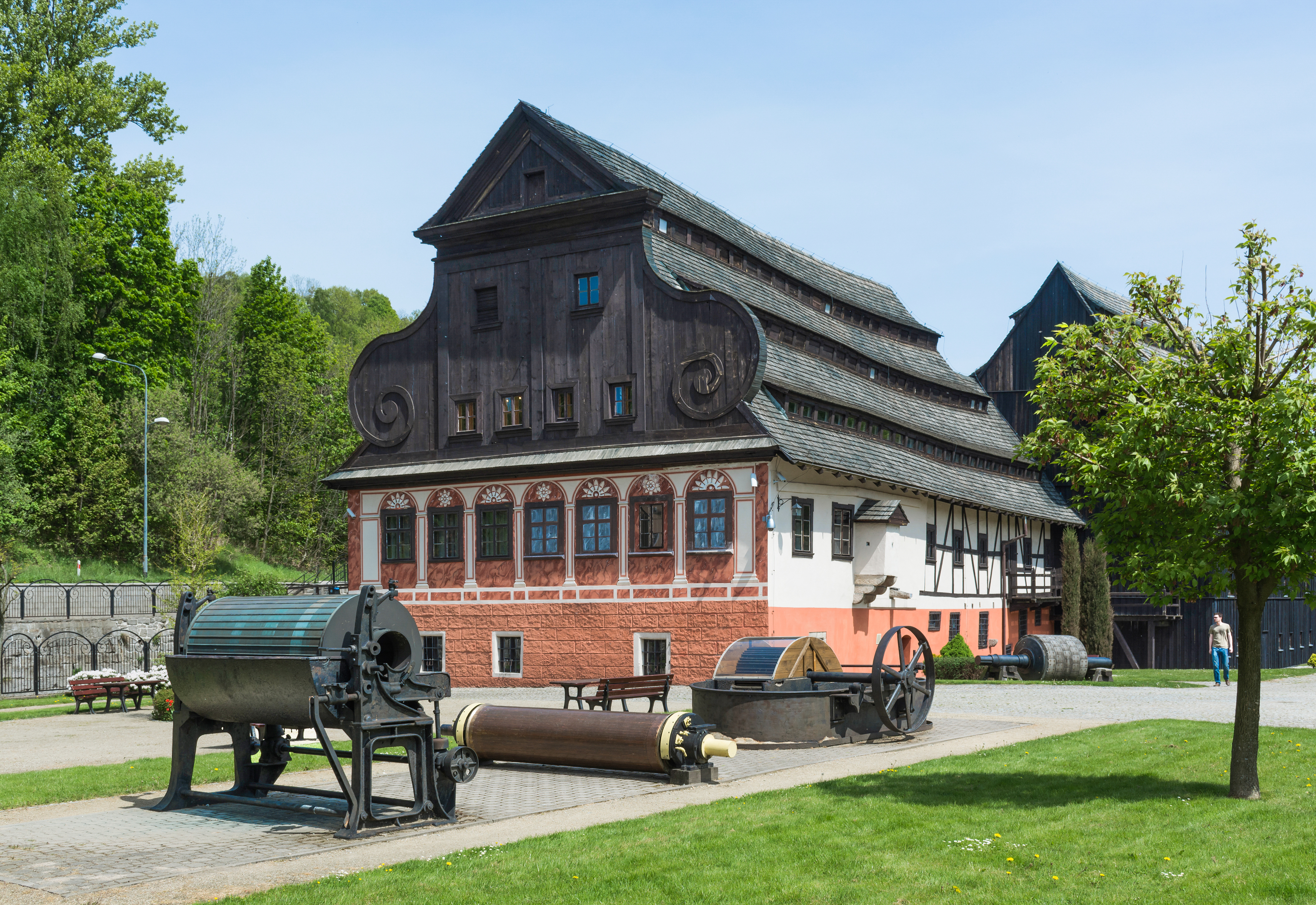 Museum of Papermaking in Duszniki-Zdrój Ta fotografia przedstawia zabytek wpisany do rejestru zabytków pod numerem ID 741340